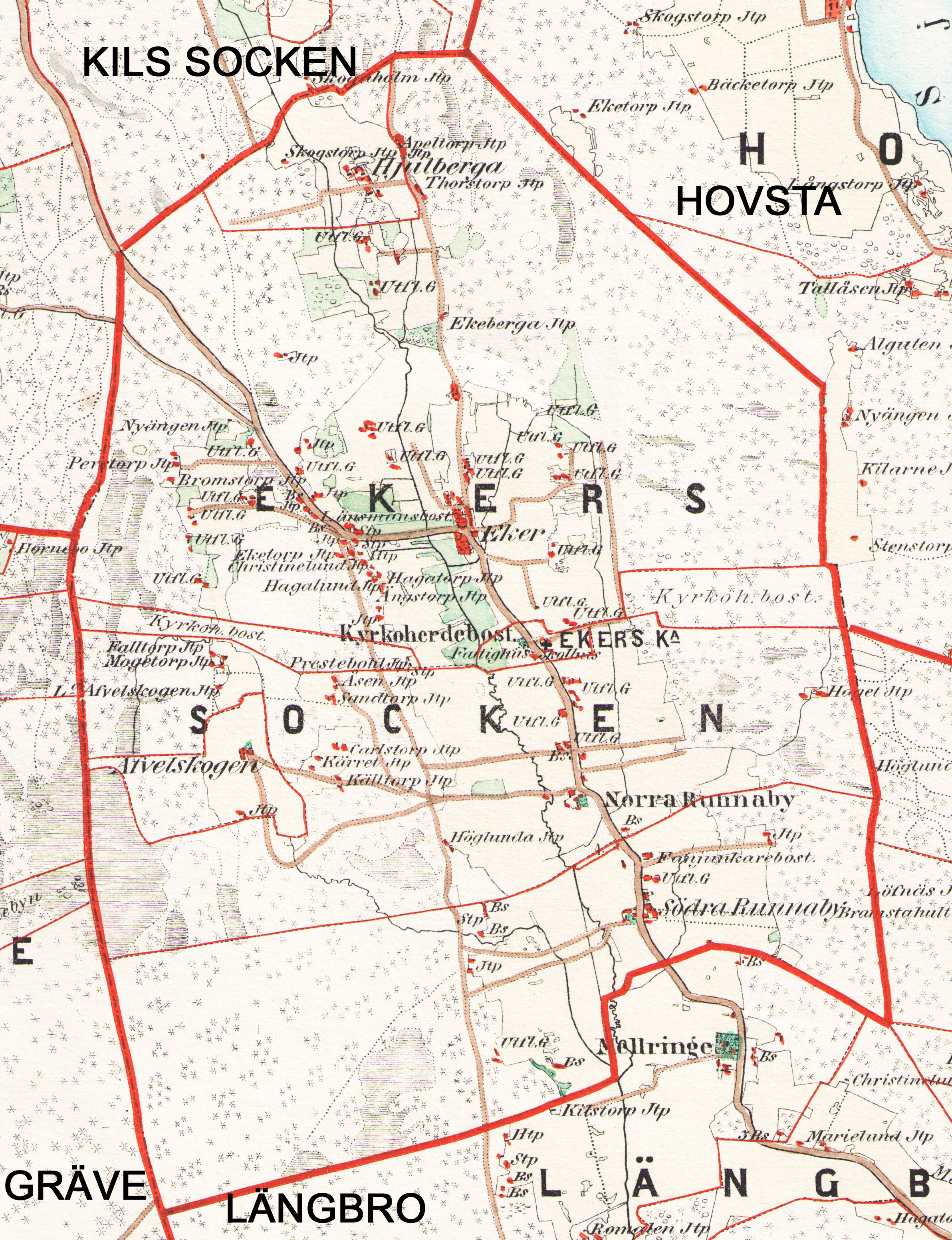 Map of Eker